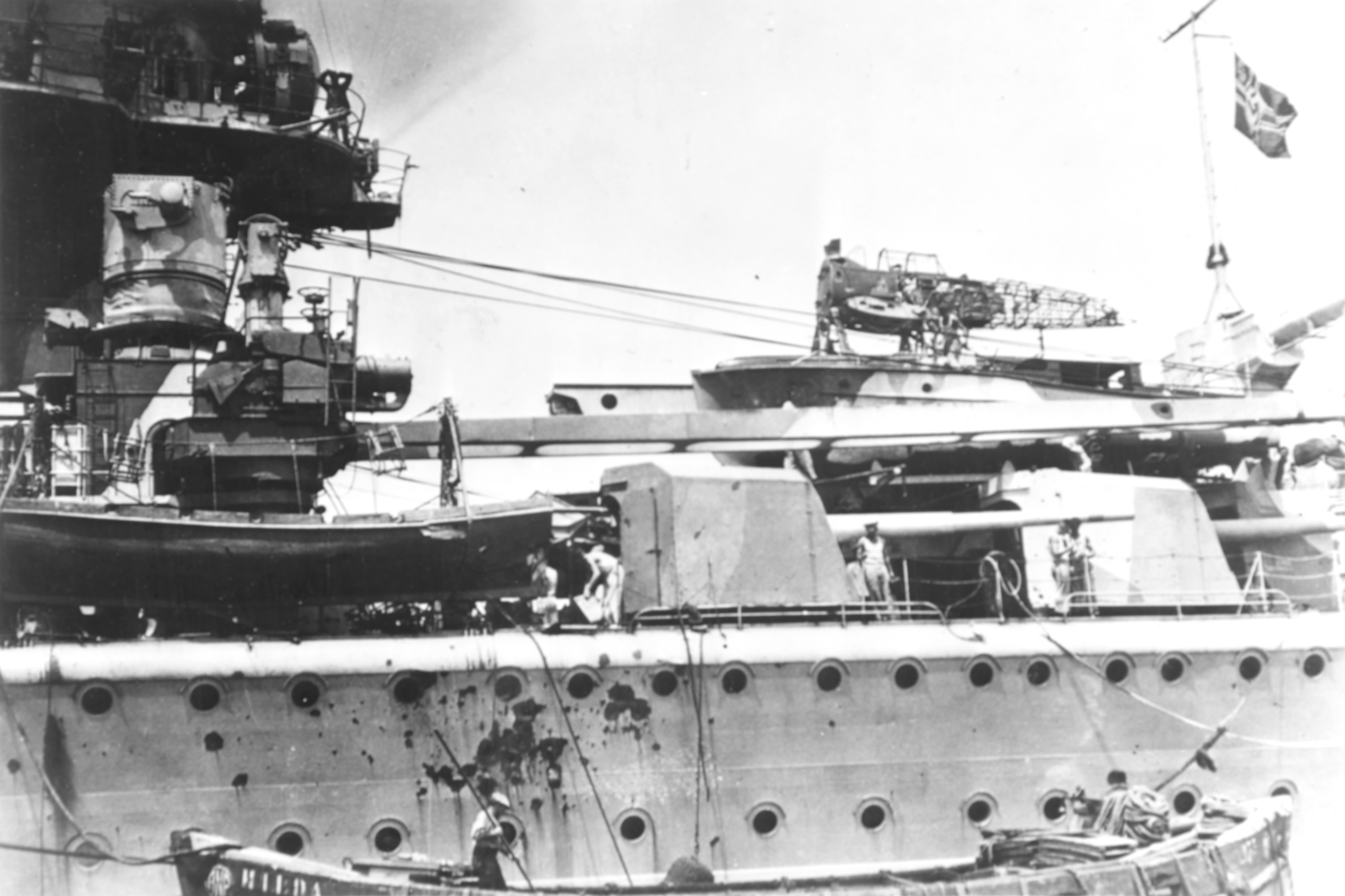 Admiral Graf Spee (German Armored Ship, 1936) View of the ship's port side, amidships, taken while she was at anchor in Montevideo harbor, Uruguay in mid-December 1939, following the Battle of the River Plate. Note the burned-out remains of an Arado Ar 196A-1 floatplane atop the ship's catapult, 15cm broadside guns, boat and aircraft crane, secondary gun battery director (at left), and damage to her side plating from shell fragments.